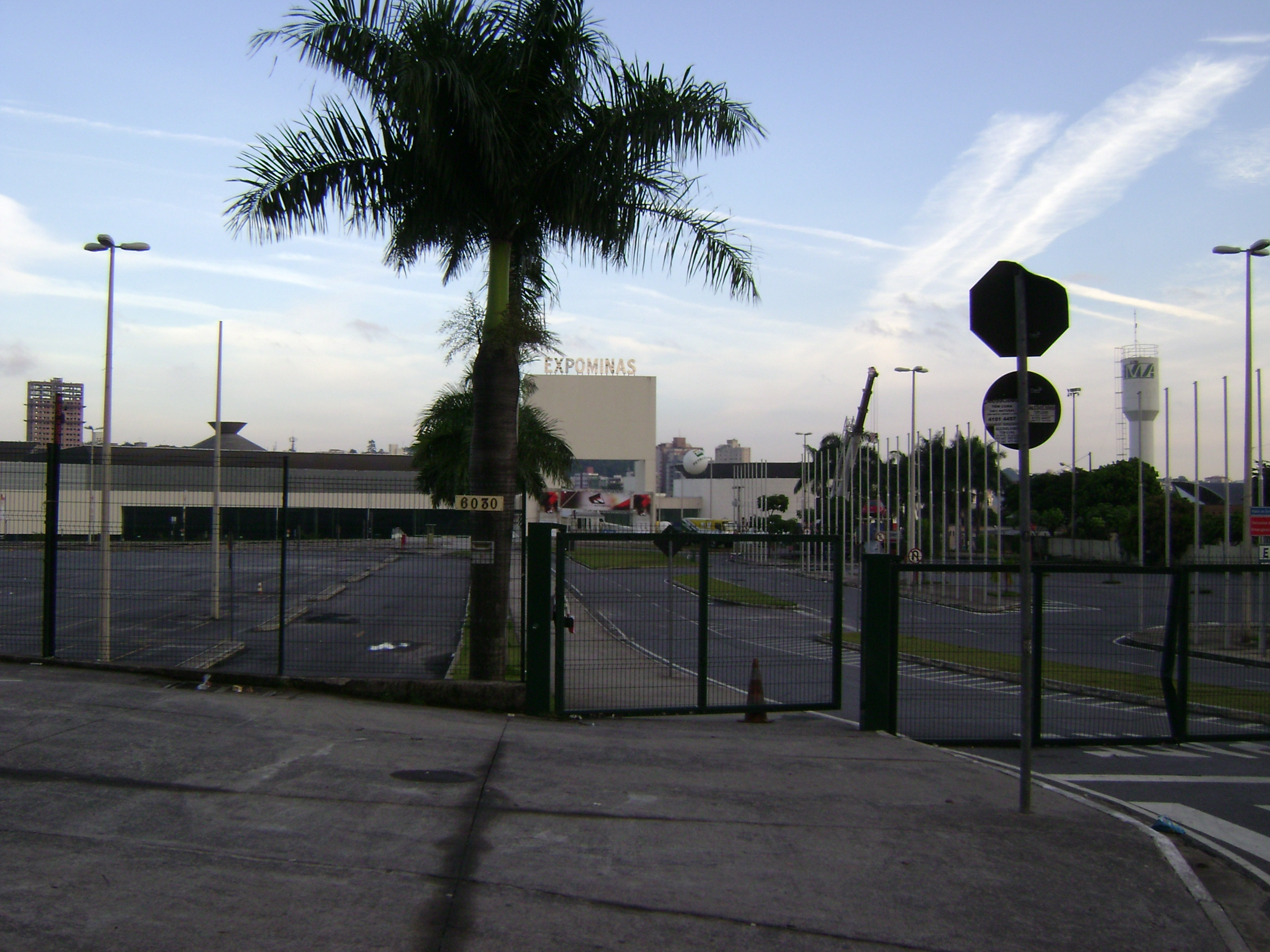 Entrance of Expominas, in Belo Horizonte, Brazil.